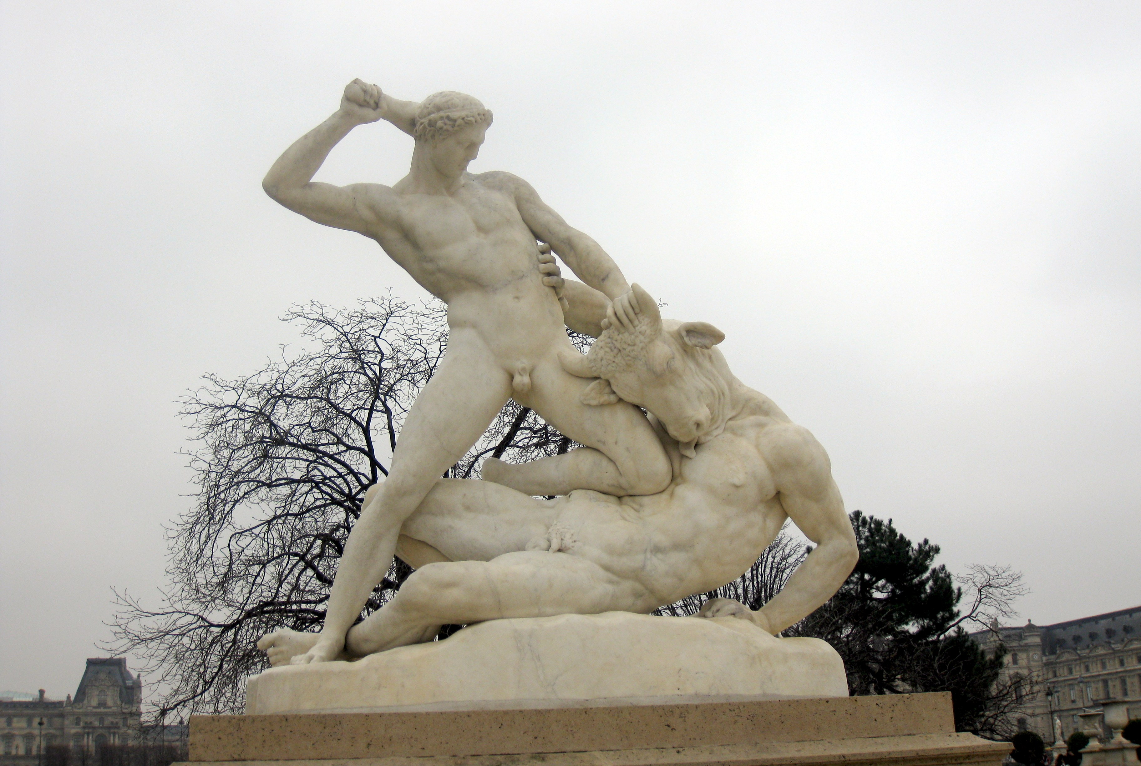 Jardin des Tuileries in the rain